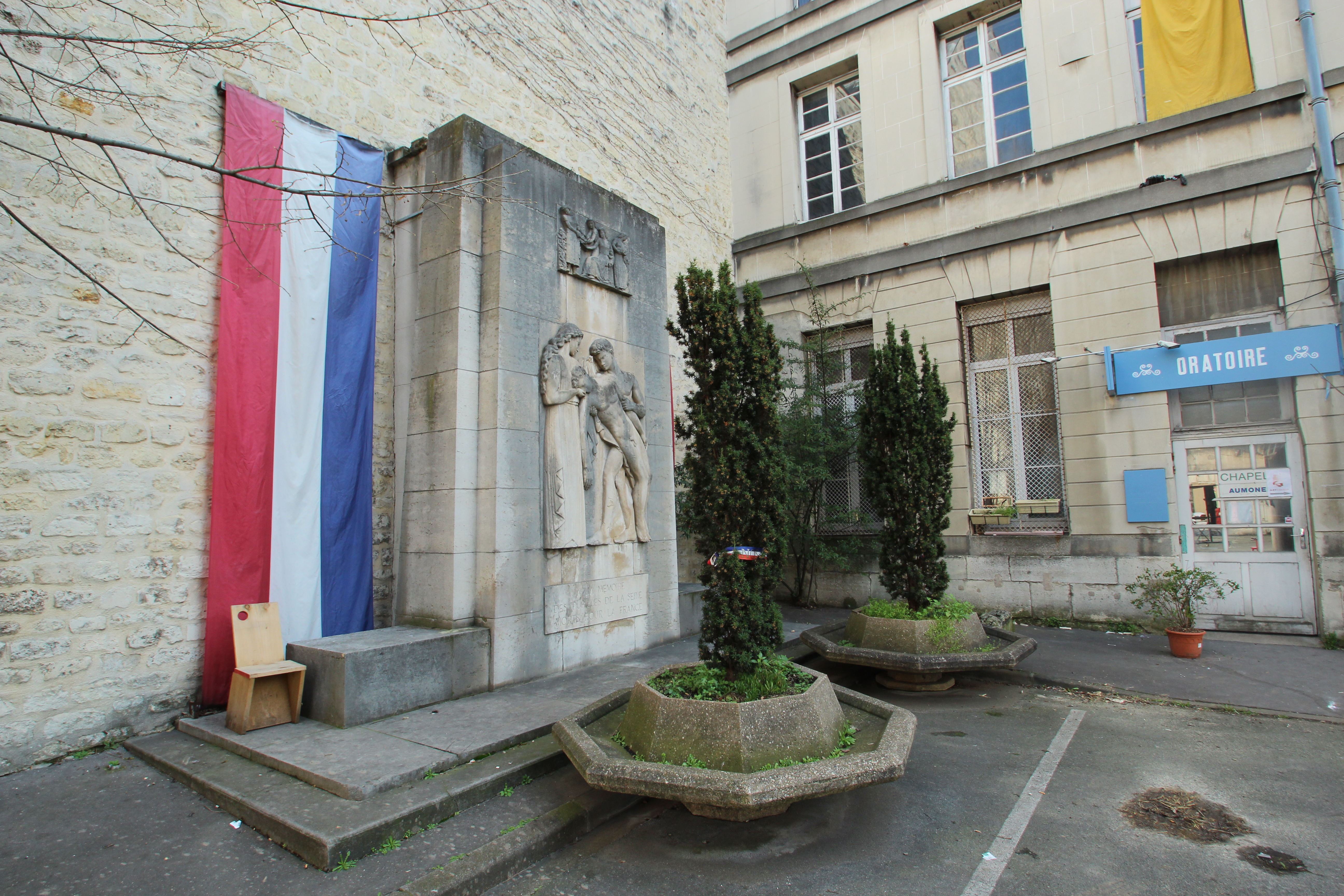 Saint-Vincent-de-Paul former hospital in Paris, France. Object location48° 50′ 16.08″ N, 2° 20′ 00.92″ E